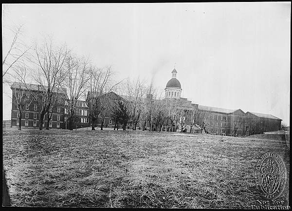 Image of Bayview Asylum